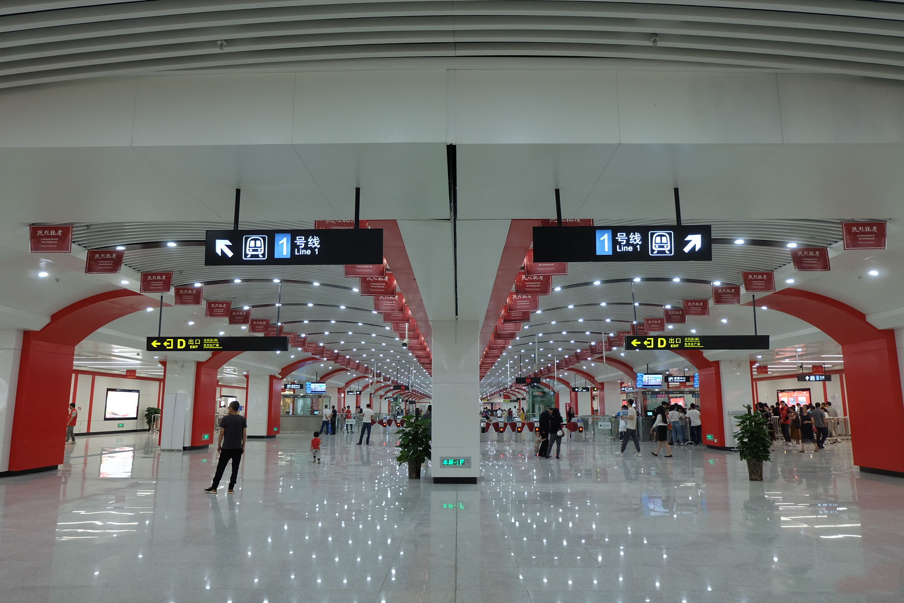 Dongfanghong Metro Station level -1